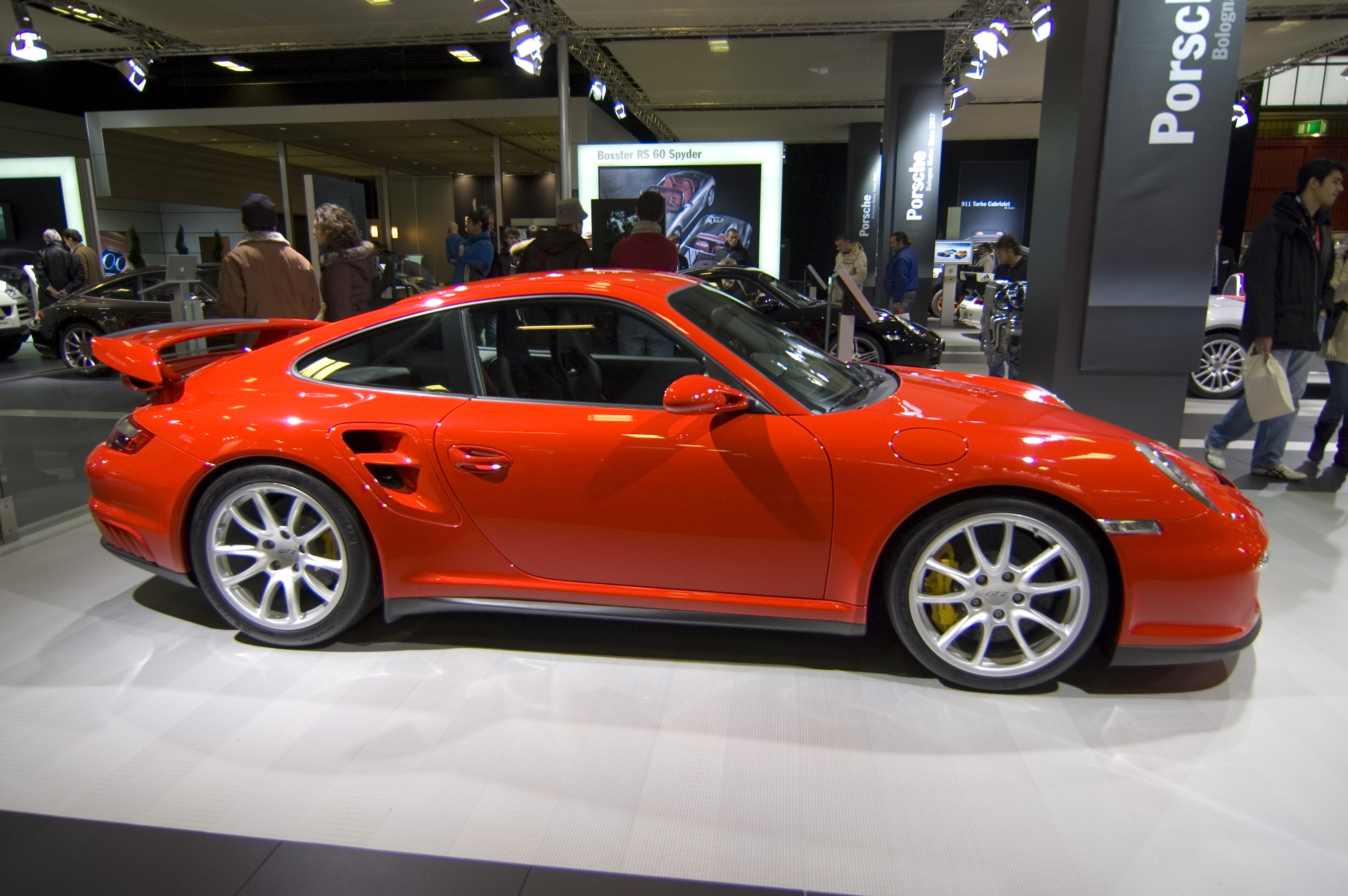 MotorShow 2007: Porsche